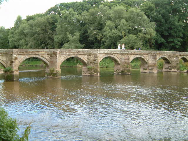 The bridge at the back of Shugborough Hall